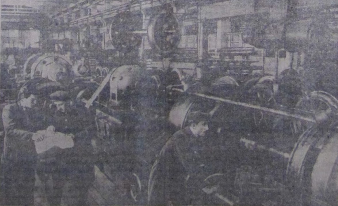 A picture from a Georgian Newspaper, Komunist'i in 9 March 1953, depicting workers from a factory in Georgian SSR